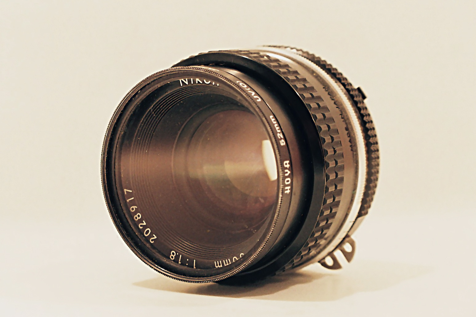 Nikon 50mm F1.8+Hoya UV-filter